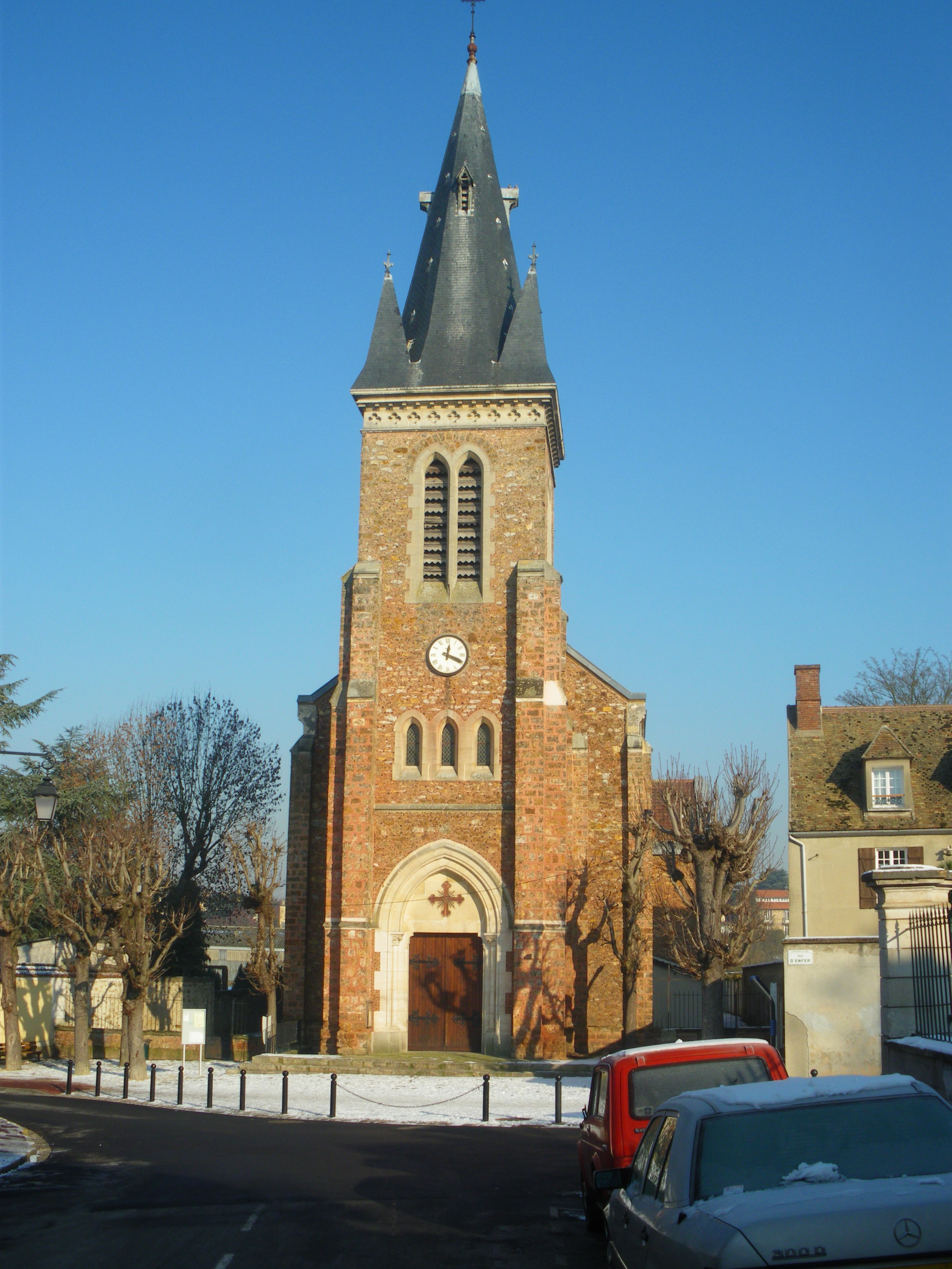 Church of Saint Michel sur Orge